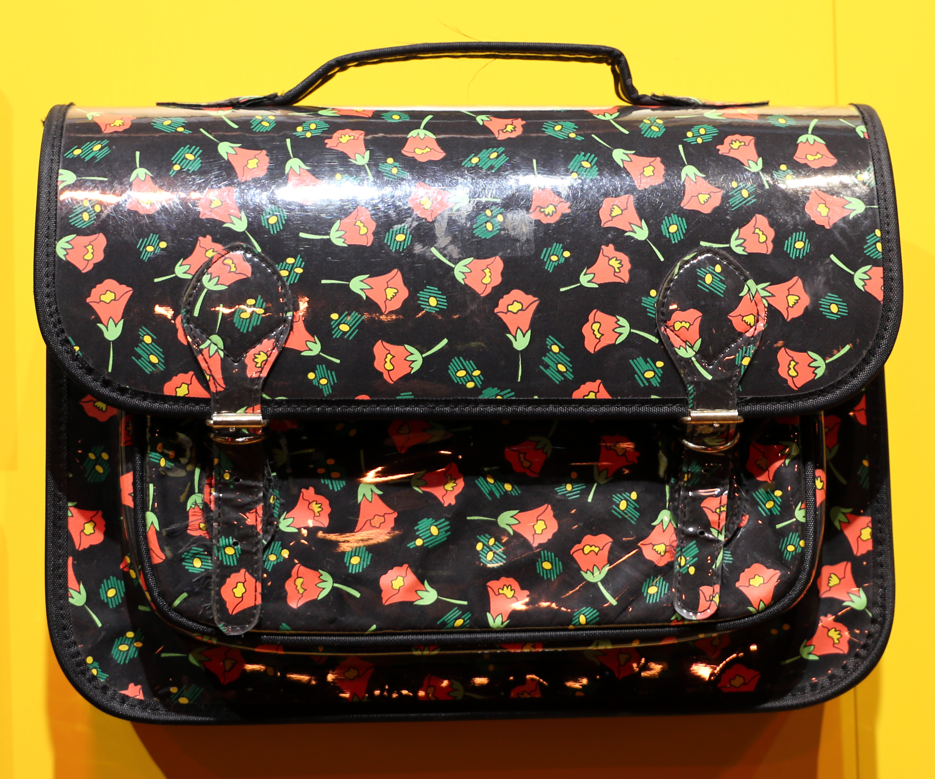 Supermostra Esselunga (Florence 2018)